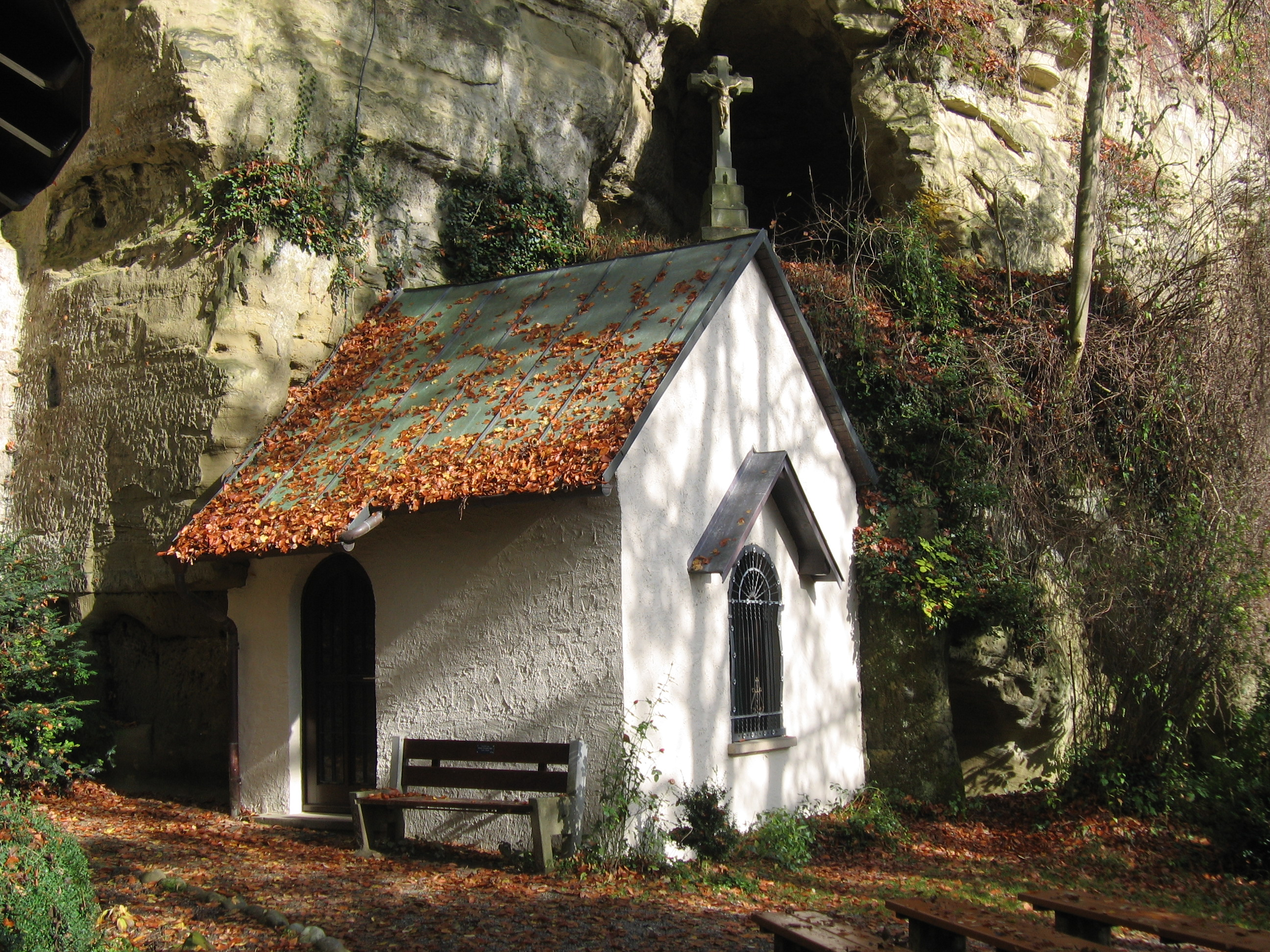 Germany - Baden-Württemberg - Bodenseekreis - Überlingen: chapel "Maria im Stein"